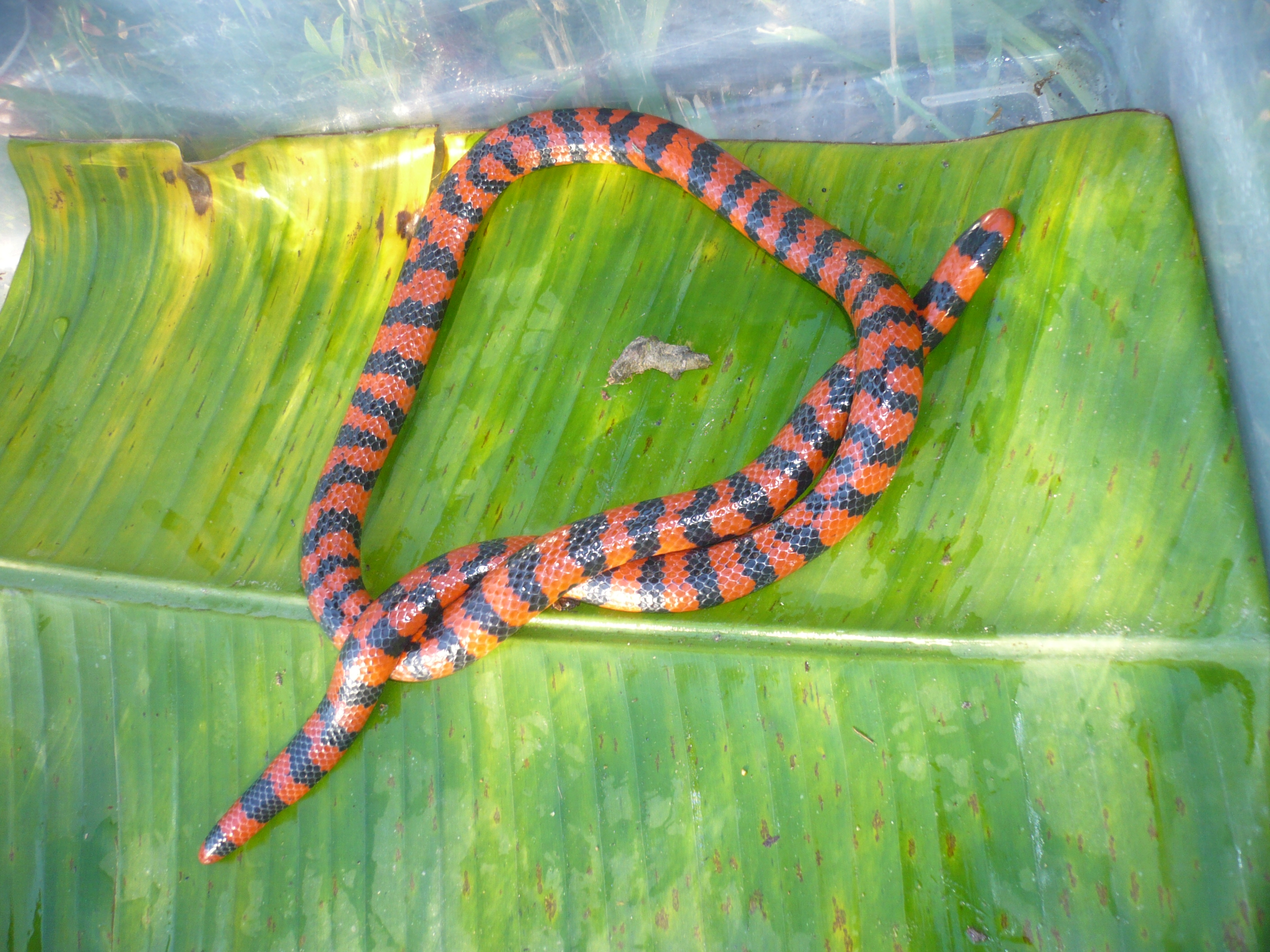 Anilius scytale in Madre de Dios, Perú.